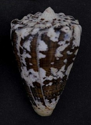 The shell of Conus regius Gmelin, 1791; collected in Netherlands Antilles.